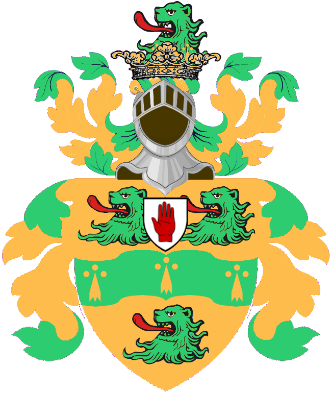 The armorial achievement of the Lushington baronets of South Hill Park